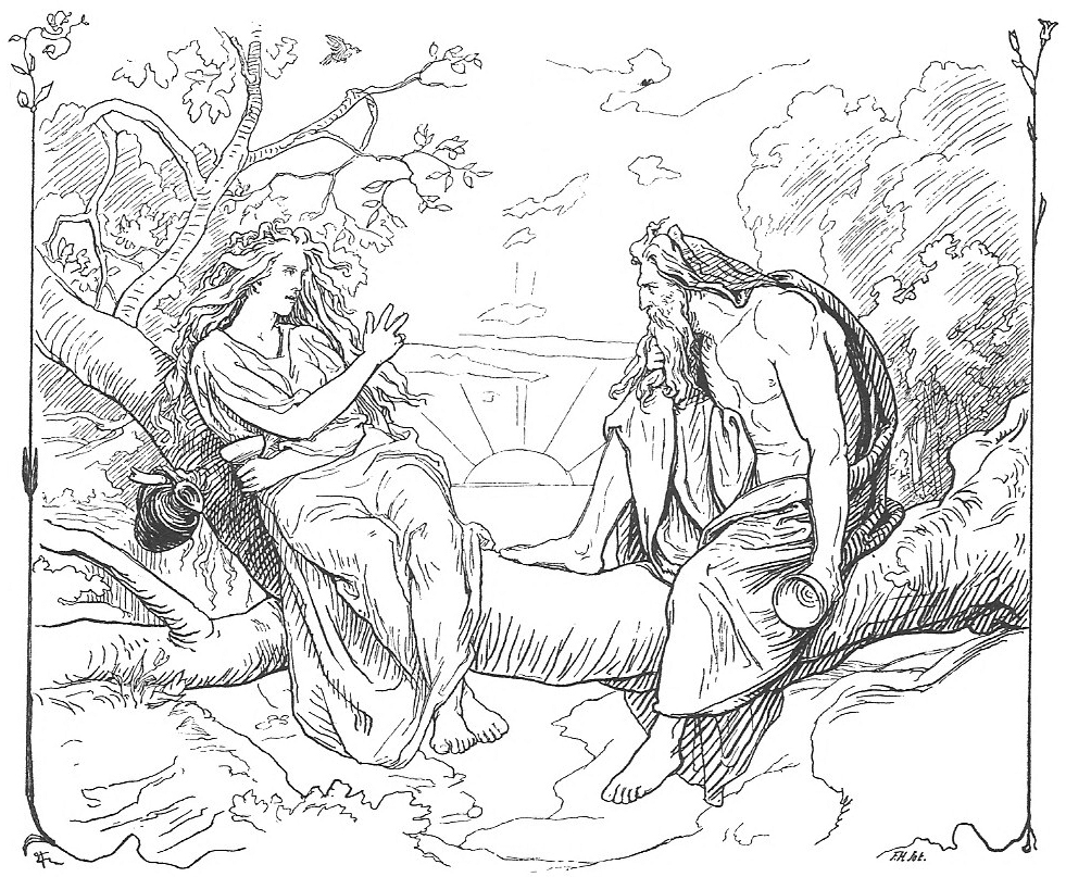 Odin and Sága drinking together.